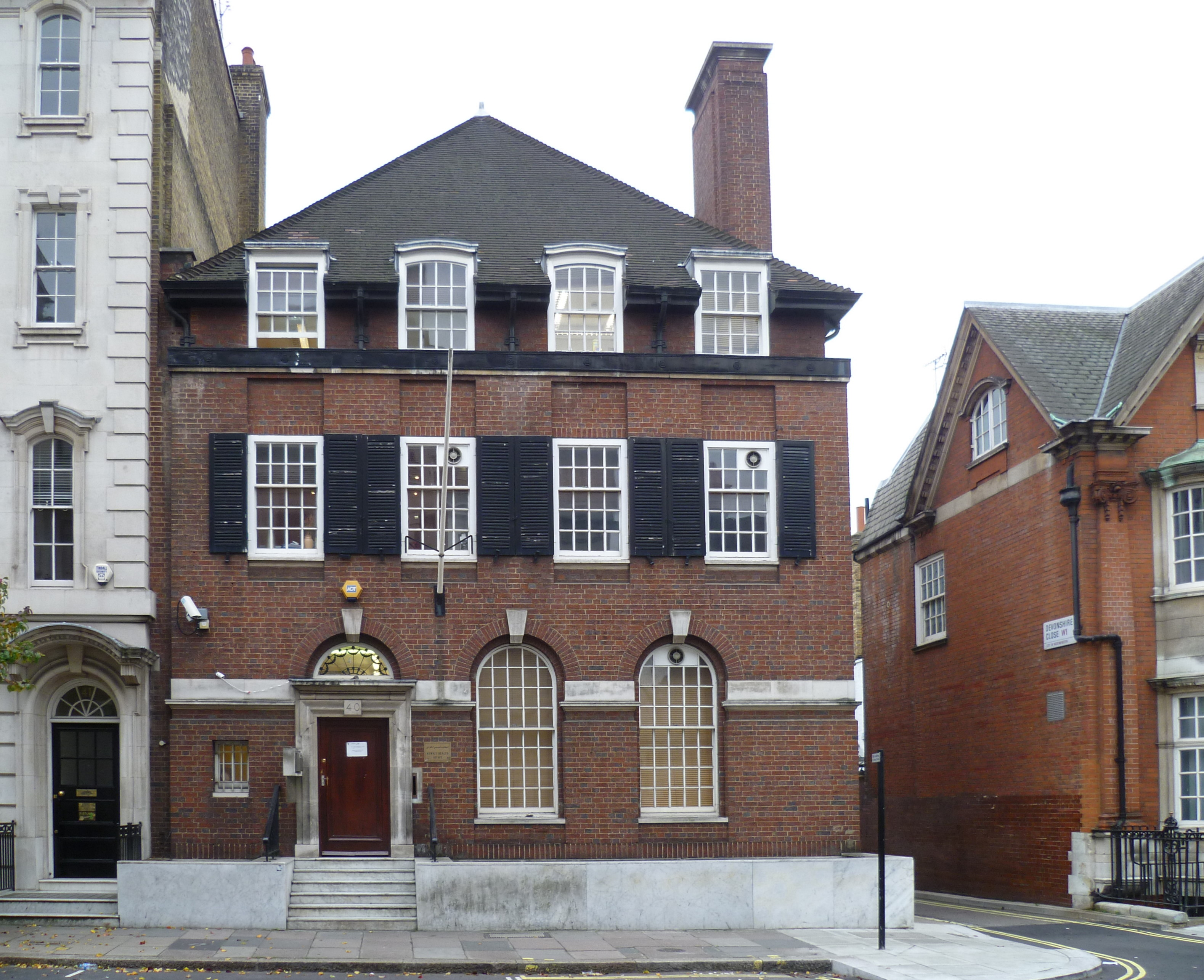 London